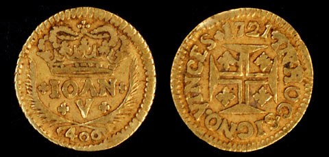 Old Brazilian coin of "400 reis" with inscription Ioan V - In Hoc Signo Vinces. Year 1721